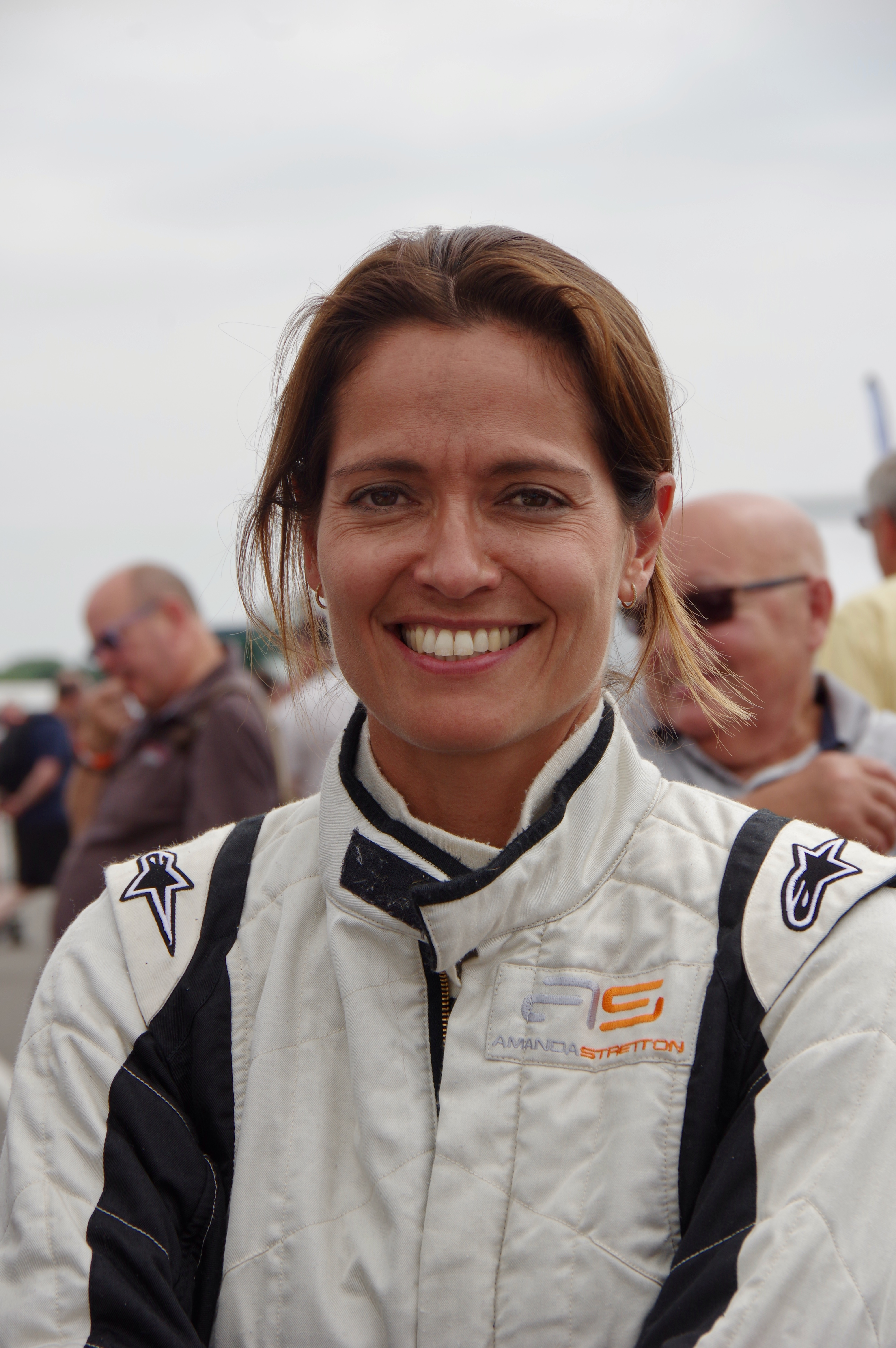 Amanda Stretton 2018 Silverstone Classic.